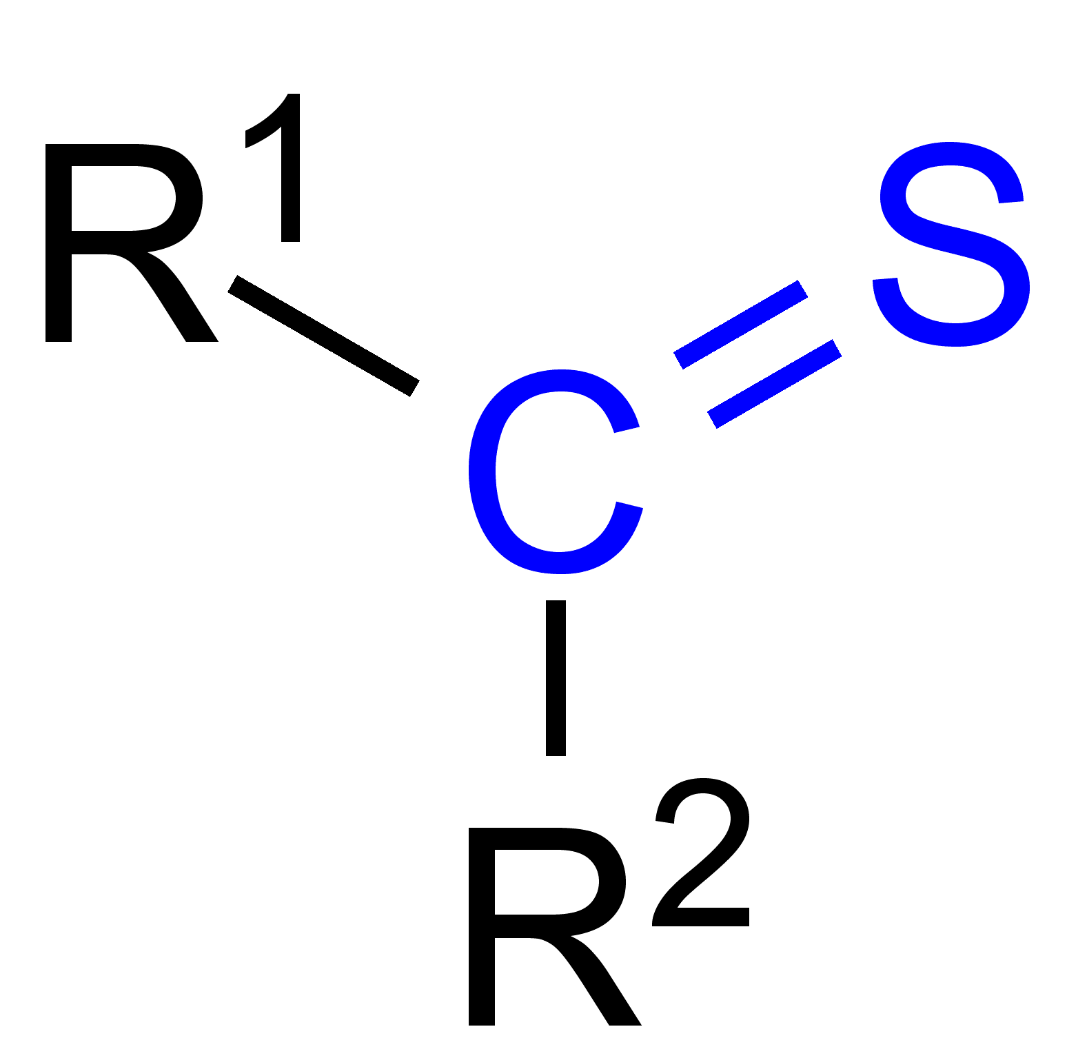 Thioketone_Structural_Formulae